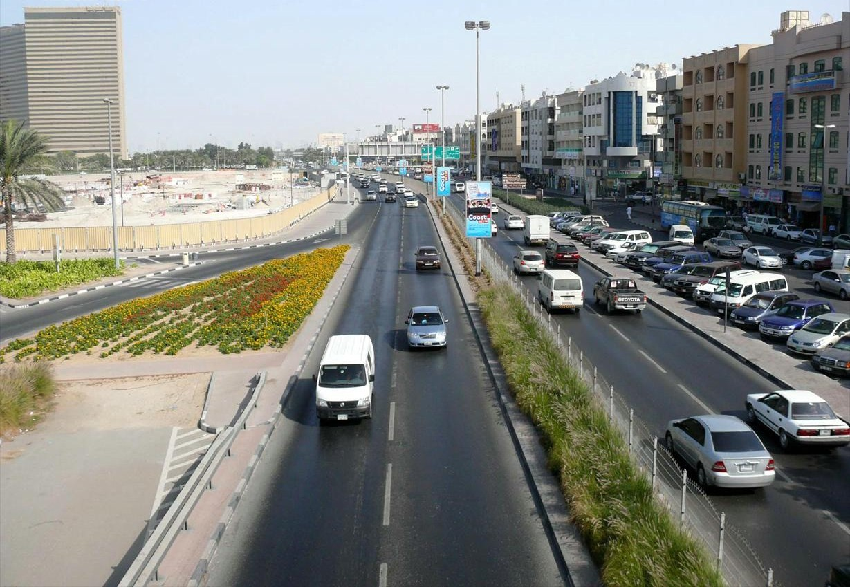 This is a photo of Al Khaleej Road in Deira, Dubai, United Arab Emirates on 26 December 2007. The photo is looking toward Sharjah. The Hyatt Regency Dubai is the building on the left.